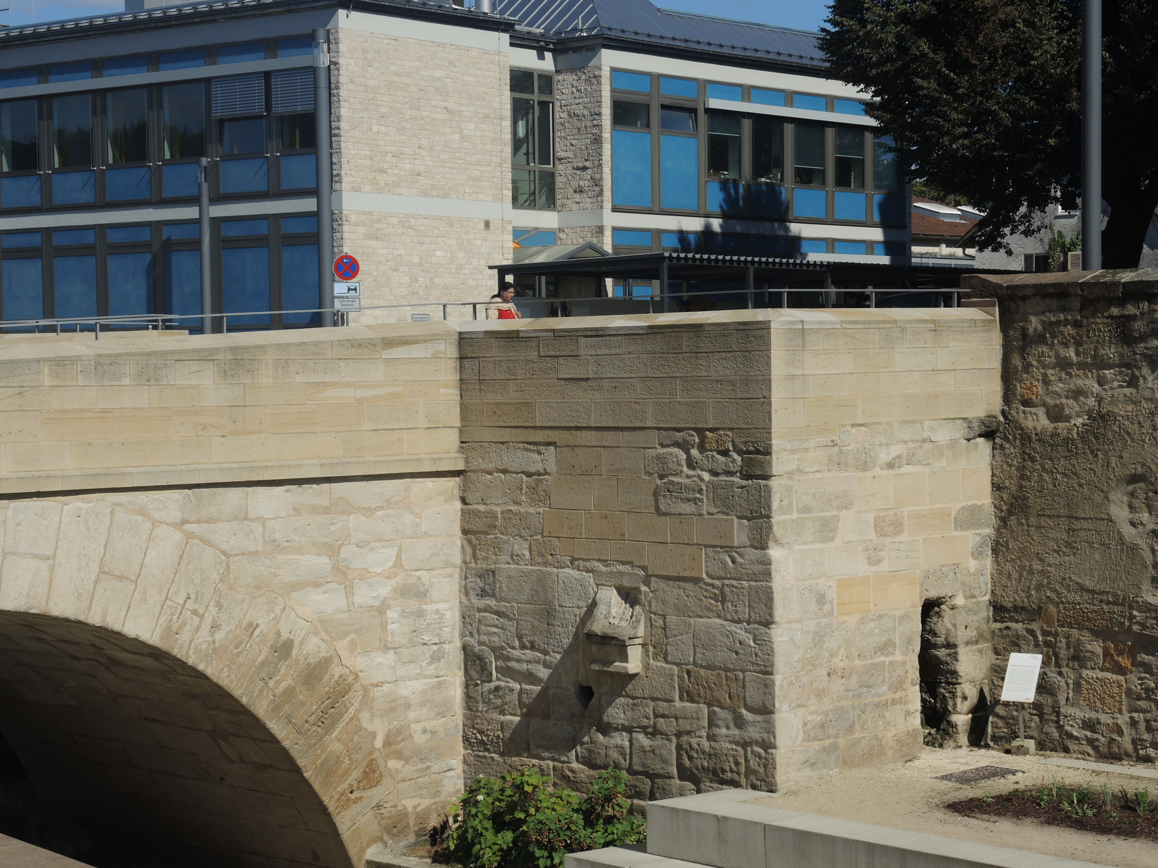 Remnants of the "Unteres Tor" on "Fünfknopfturm" in Schwäbisch Gmünd.